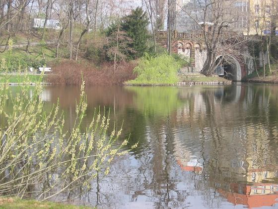 Berlin's lake "Lietzensee", Berlin-Charlottenburg